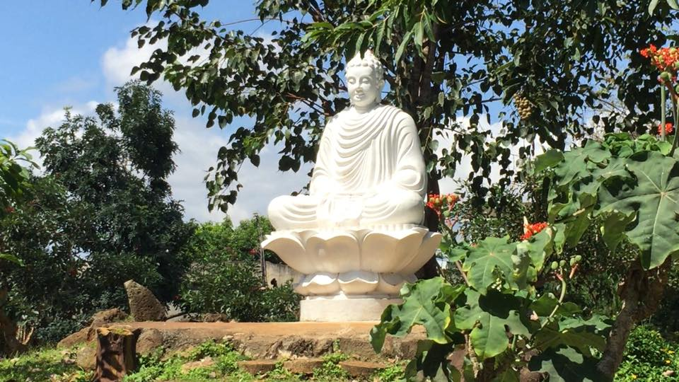 Buddha